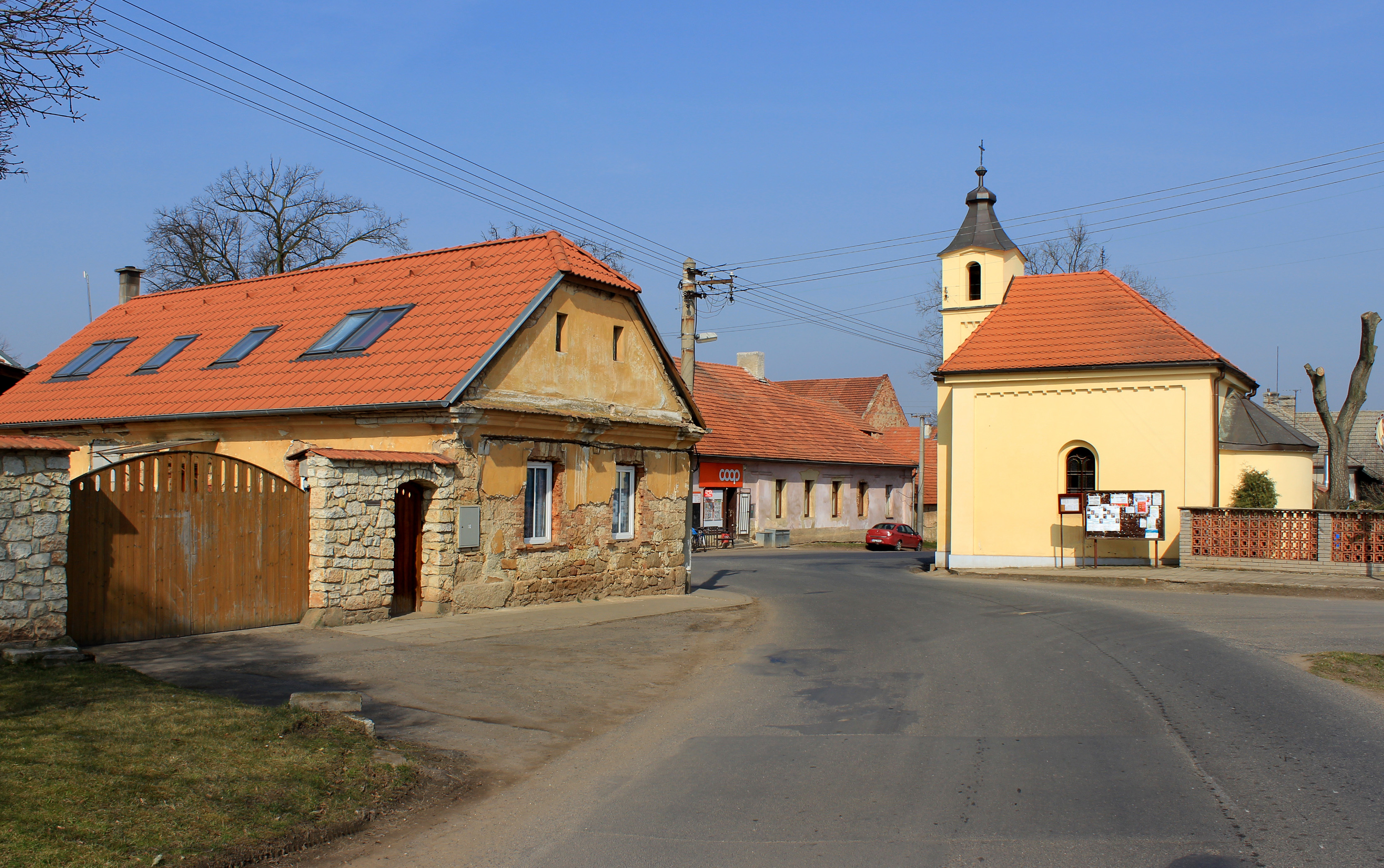 Chapel in Chrášťany, Czech Republic.